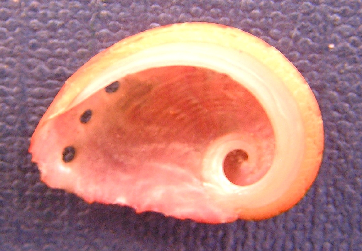 Haliotis thailandis Dekker & Pakamanthin, 2001, an abalone from the family Haliotidae; Philippines